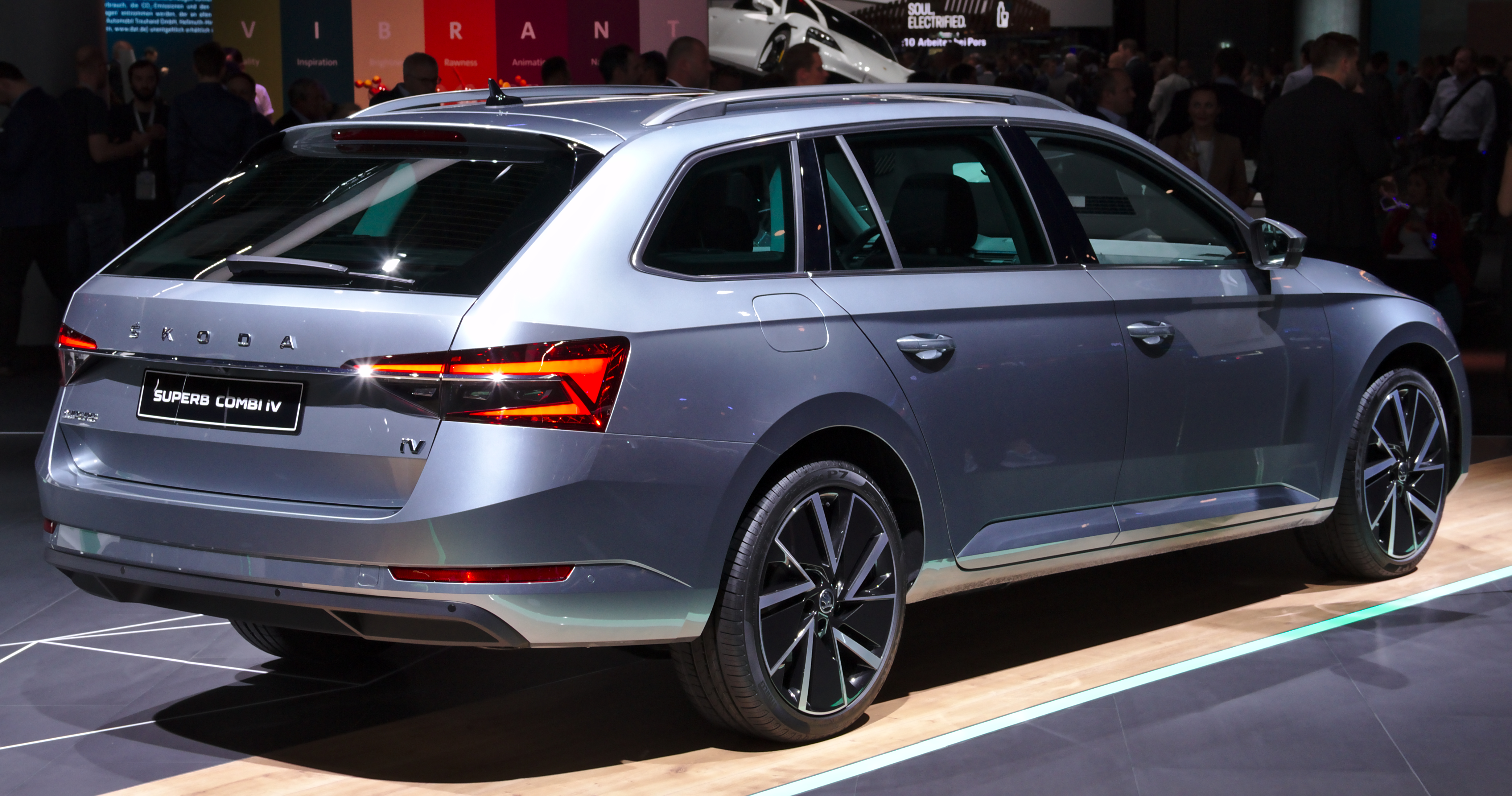 Škoda_Superb_III_Combi_iV at IAA 2019